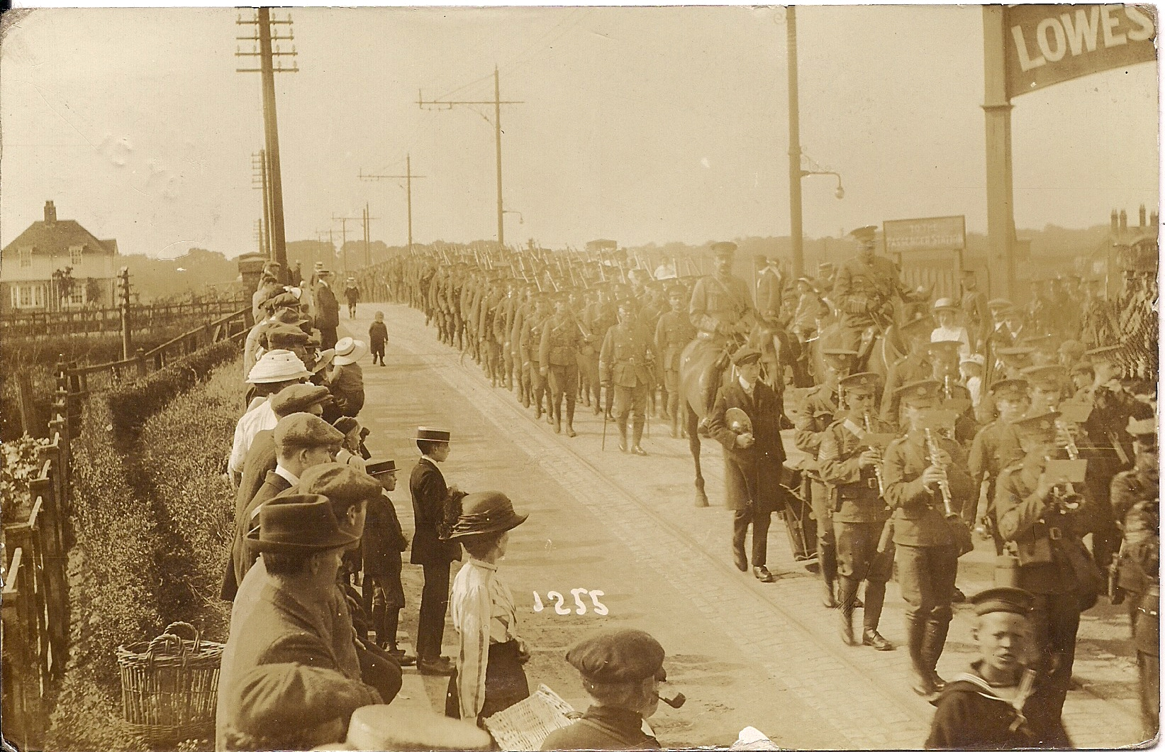 The 4th Battalion Suffolk Regiment marching from Lowestoft North railway station to their camp along the Yarmouth Road (now the A12 road (England)). The tram standards and rails of Lowestoft Corporation Tramways can be seen.